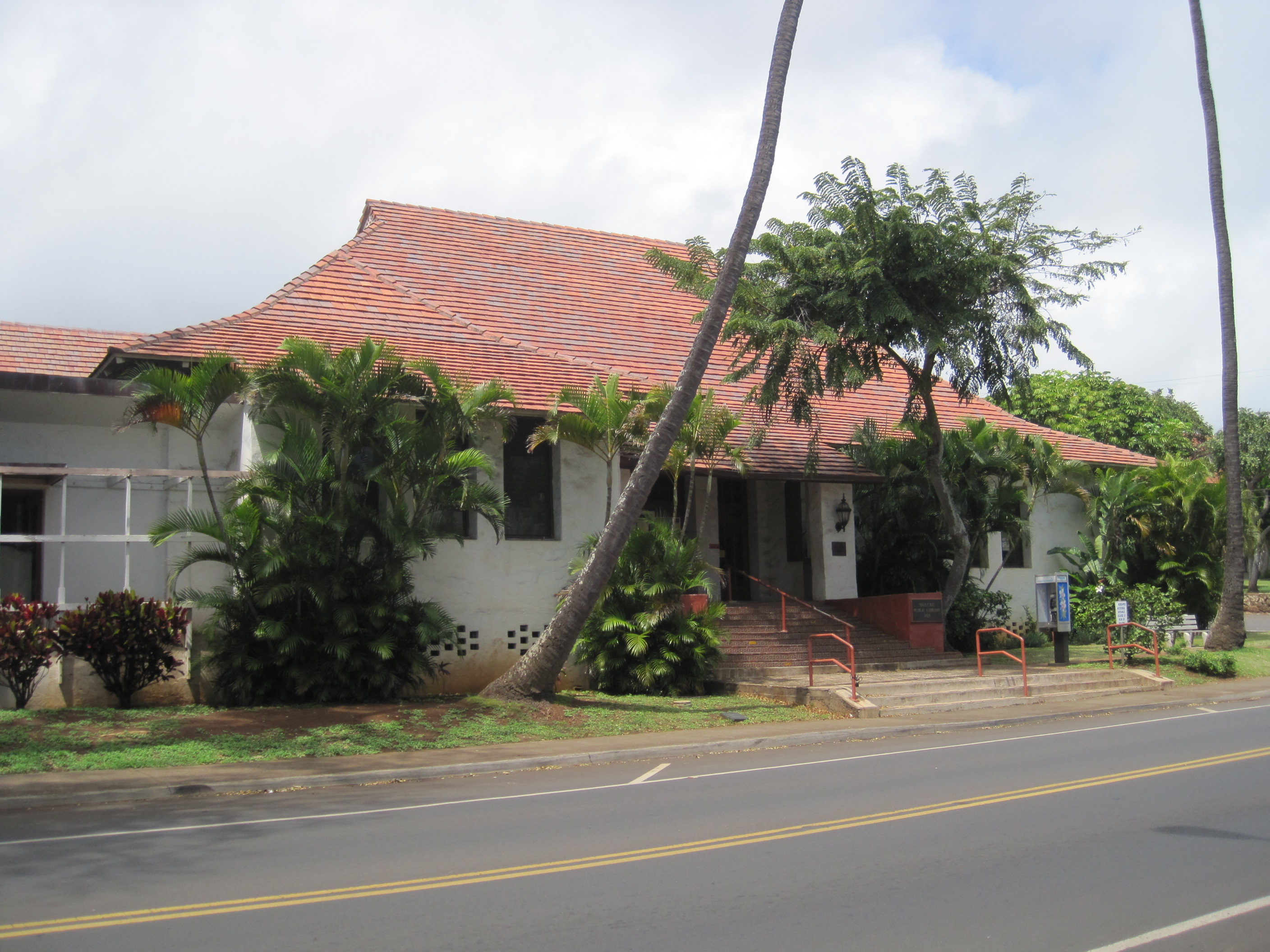 Wailuku Library, S. High St., Wailuku Civic Center Historic District, on National Register of Historic Places, built 1928, architect Charles William Dickey